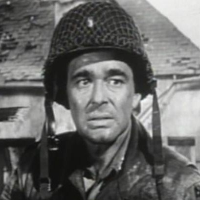 Stuart Whitman in The Longest Day - trailer (cropped screenshot)